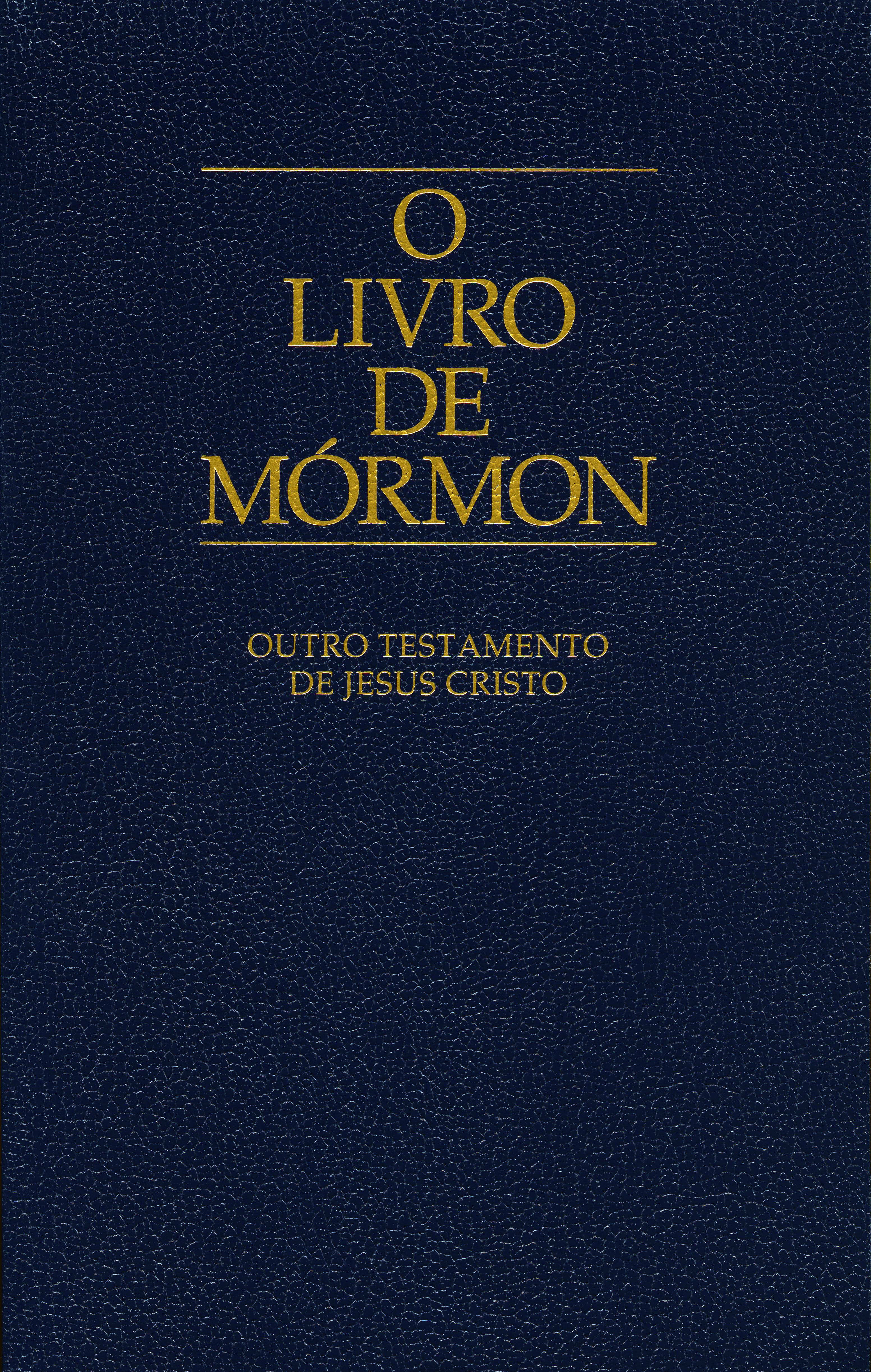 Cover of a Portuguese Book of Mormon published by The Church of Jesus Christ of Latter-day Saints.